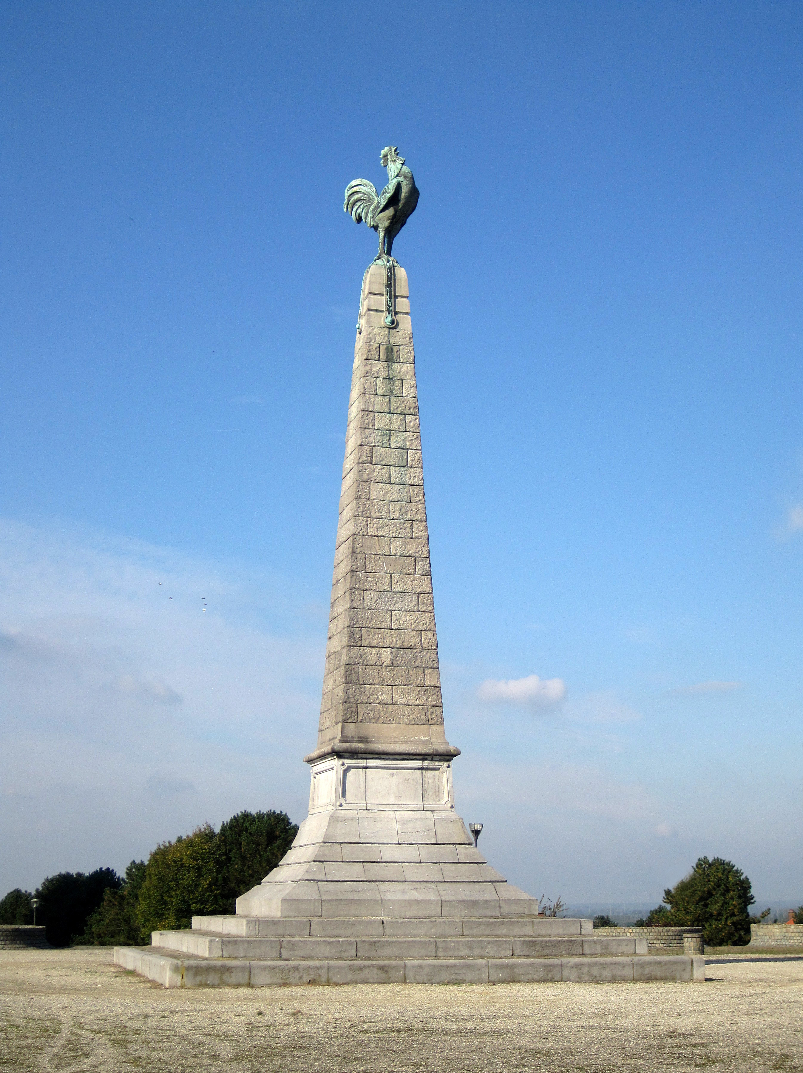 Jemappes (Belgium), the monument du "Coq" (of the Rooster) erected in memory, the battle having opposed the 6 november 1792 the French Revolutionary Army ordered by General Dumouriez to the Austrian army under orders of Albert of Saxe-Teschen. 43″ N, 3° 52′ 56.7″ E